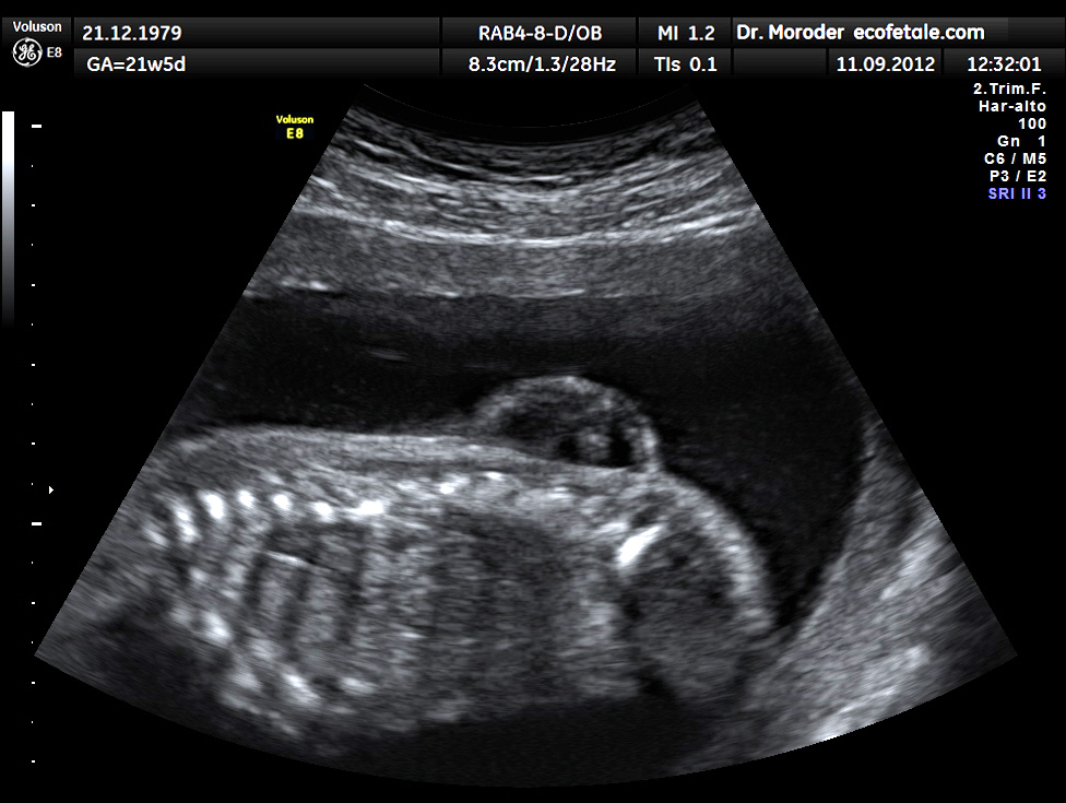 Ultrasound image of the spine at 21 weeks of pregnancy in a fetus affected by open spina bifida. In the longitudinal scan a lumbar myelomeningocele is seen.